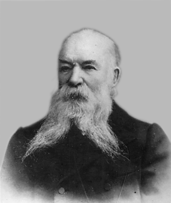 Genrikh (Heinrich) Vasilievich Struve (1822-1908)